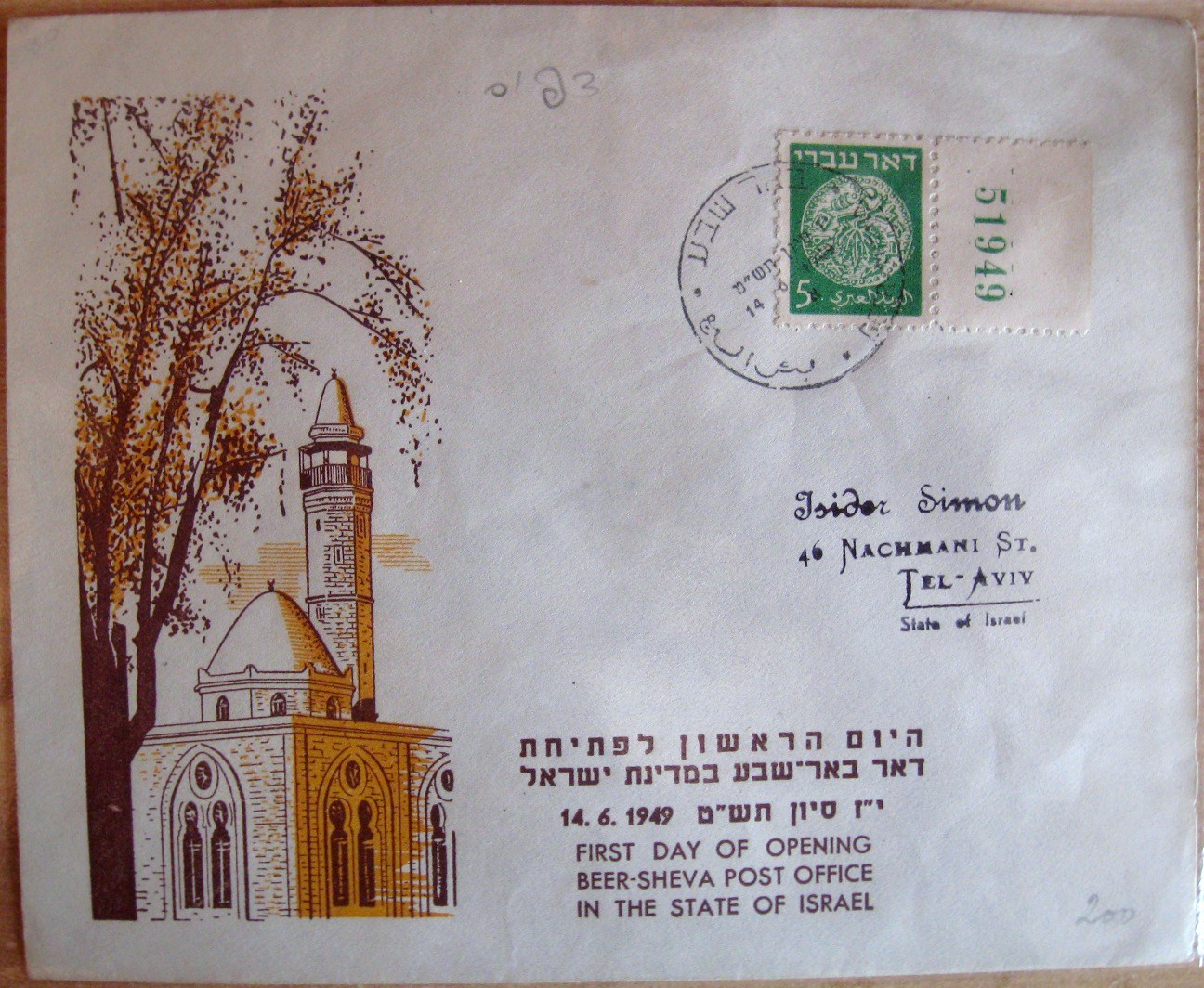 a envelope of the first day of opening Beer Sheva Post Office, 14.6.1949. Itamar Atzmon Collection